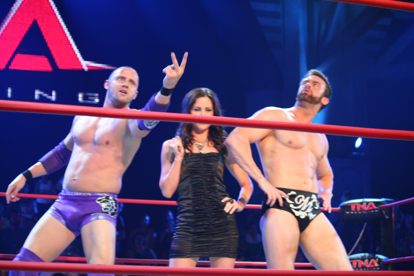 Professional wrestlers Magnus and Desmond Wolfe and Wolfe's valet Chelsea posing in the ring at a TNA Impact! taping